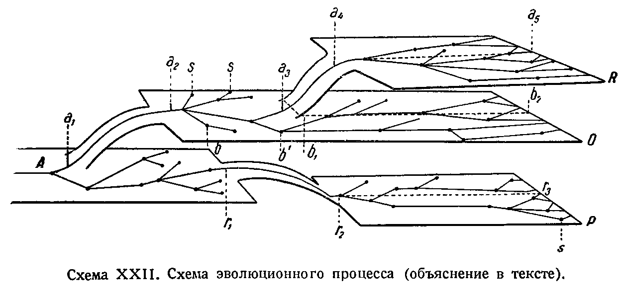 Diagram, showing the modes of the evolutionary process: aromorphosis, idioadaptation, and general degeneration. AROMORPHOSIS: new forms emerge in relations with environment and stay when the demands are no longer present (moving to the new plane). IDIOADAPTATION: new forms emerge in relations with environment and disappear when the demands are no longer present (staying in the same plane).